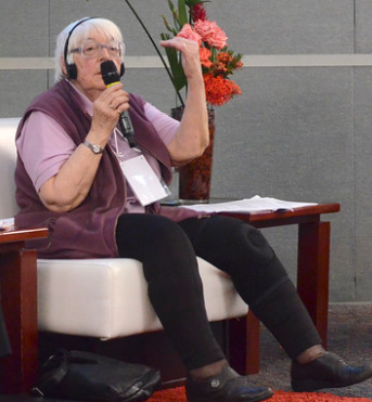 Commission for Science, Technology, Innovation, Communication and Informatics (CCT) promotes a seminar to discuss the topic Nuclear power plants - Lessons from the world experience, with the participation of international experts, researchers and Brazilian managers. Nuclear safety engineer, member of the AFEN radioprotection and nuclear safety inspectors association Sidney Luiz Rabello; nuclear safety engineer Eduardo Souza Motta; PhD in particle physics Monique Sené.